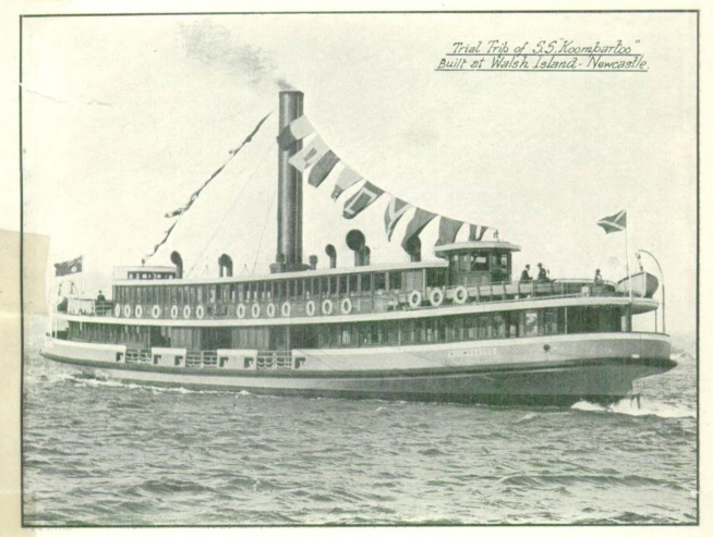 Sydney Ferries Ltd steamer Koompartoo undergoing her sea trials, 1922. Koompartoo was an identical sister ship with Kuttabul, which was requisitioned by the Australian Navy and sunk by Japanese submarine in World War 2. The two ferries had the largest ever passenger capacity of any ferry on Sydney Harbour including the Manly ferries.